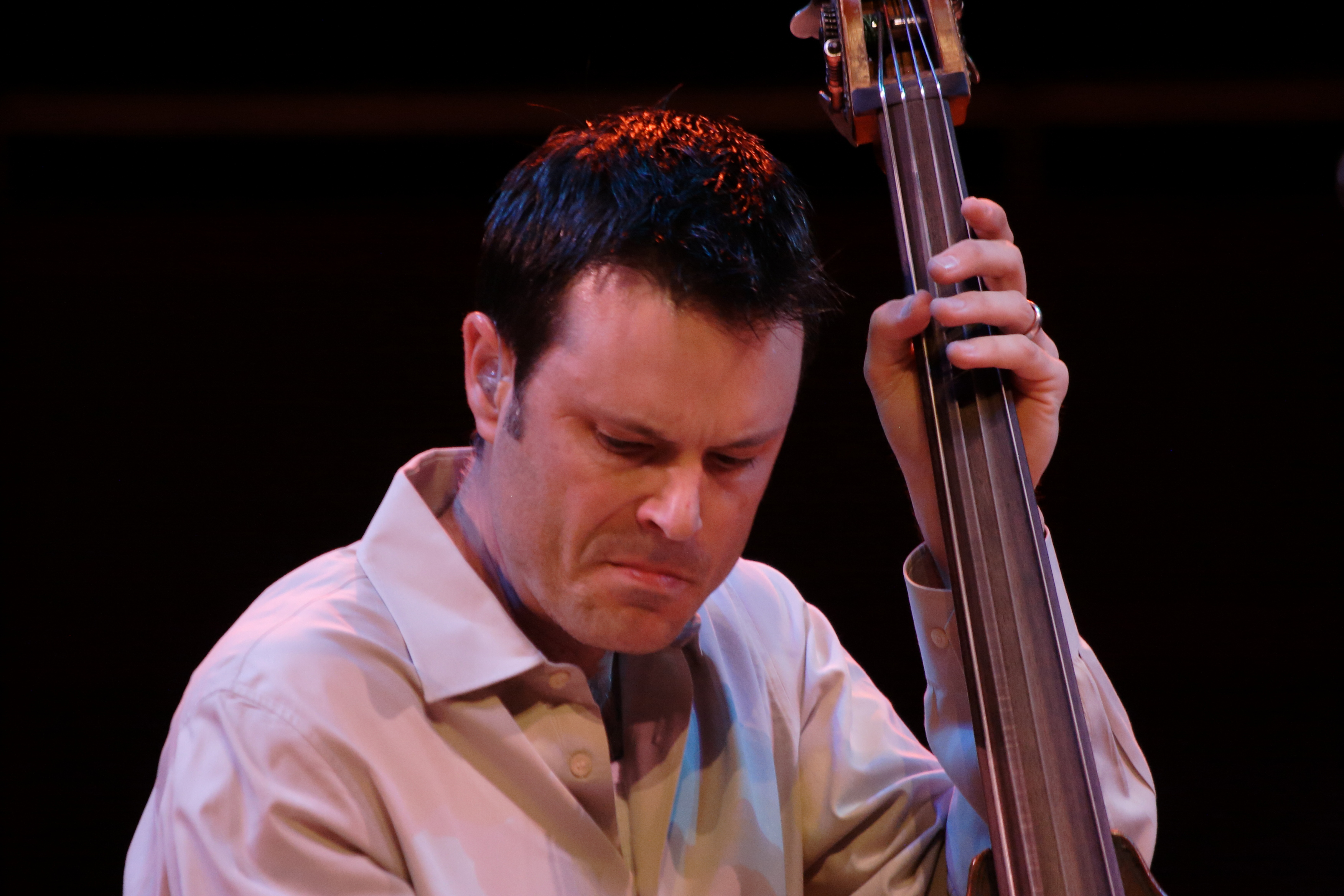 Barry Bales, performing with Dan Tyminski Band, at Meymandi Hall, Raleigh, NC, PineCone concert, March 2009.